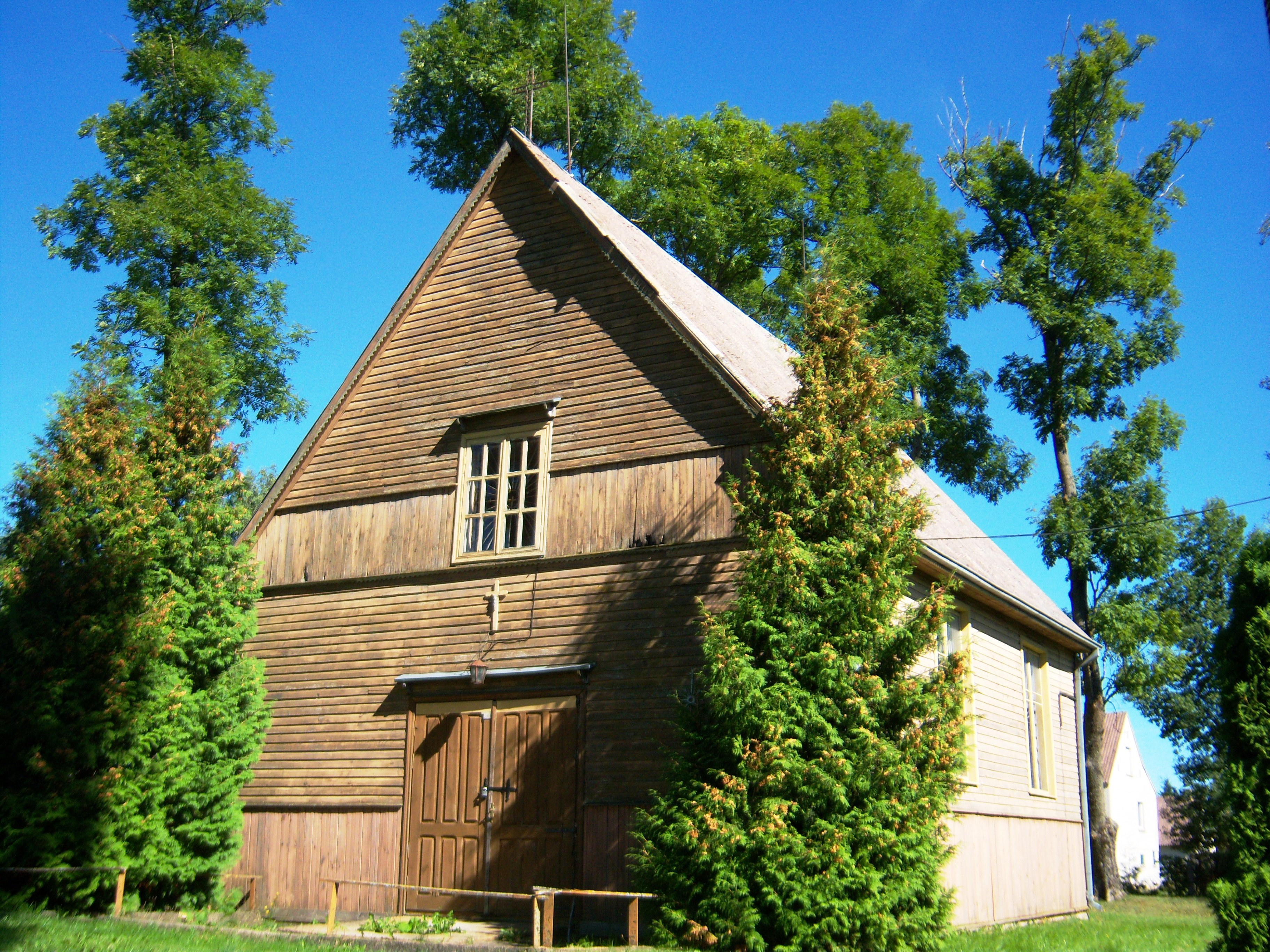 Old Catholic church in Žvirgždaičiai, interior, Šakiai District, Lithuania